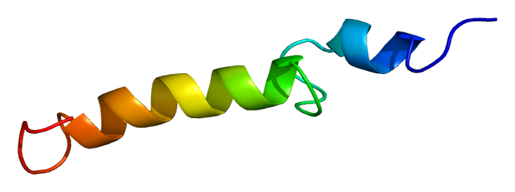 Structure of the PTH protein. Based on PyMOL rendering of PDB 1bwx.